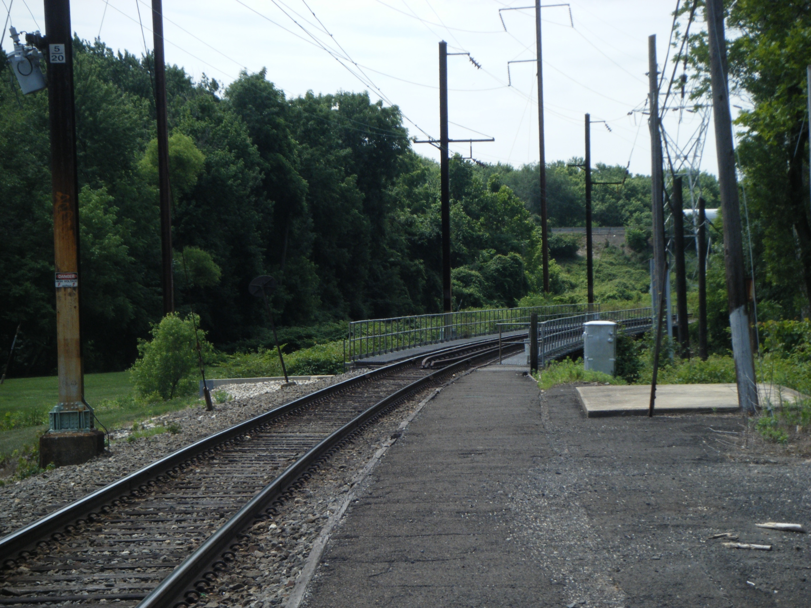 The site of the former Fulmor station, which closed in 1996, along the Warminster Line in Upper Moreland Township, Pennsylvania